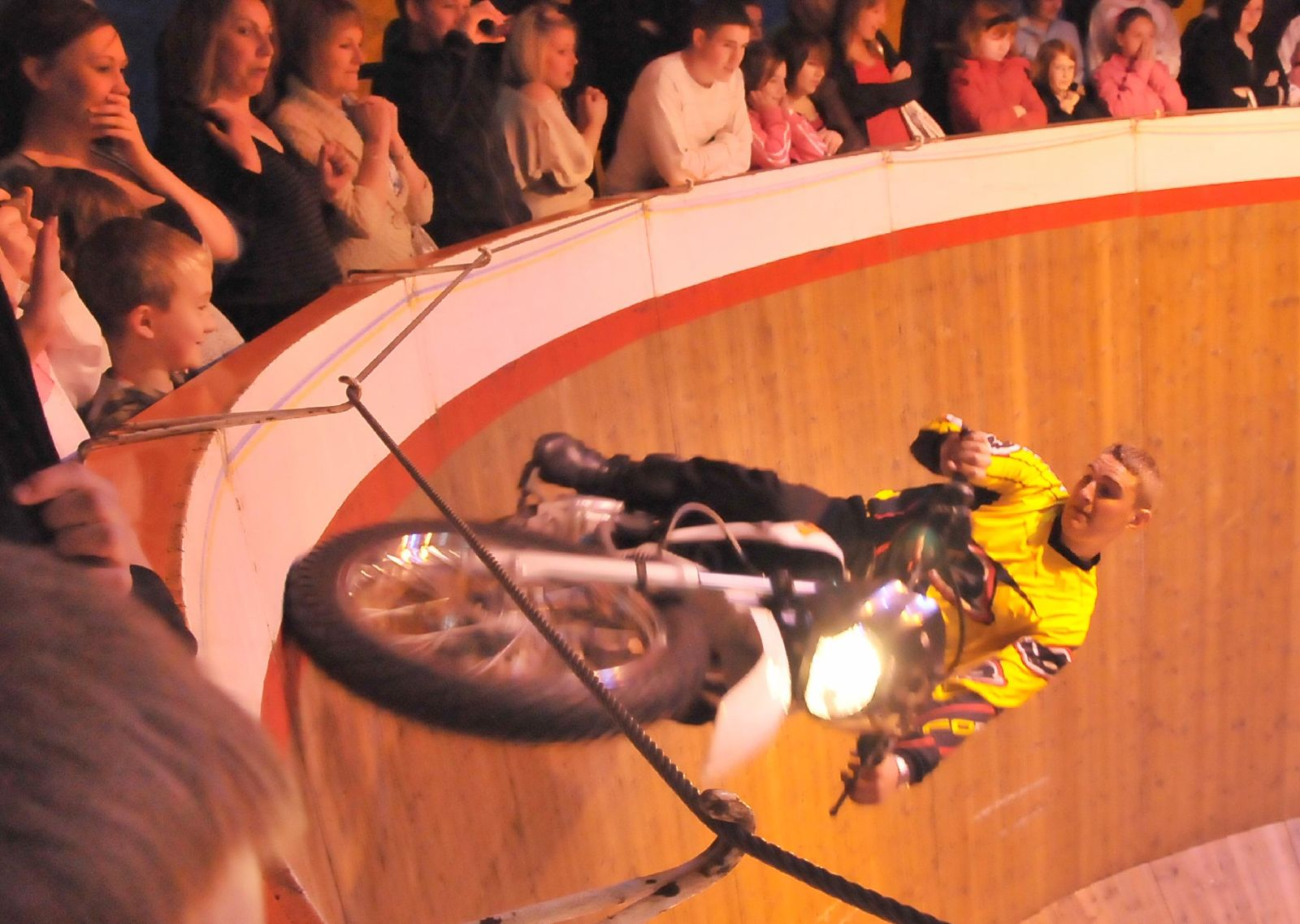 motorocycle rider doing the "Wall of death" at the 2009 Holy Fair in Mauchline Village, UK